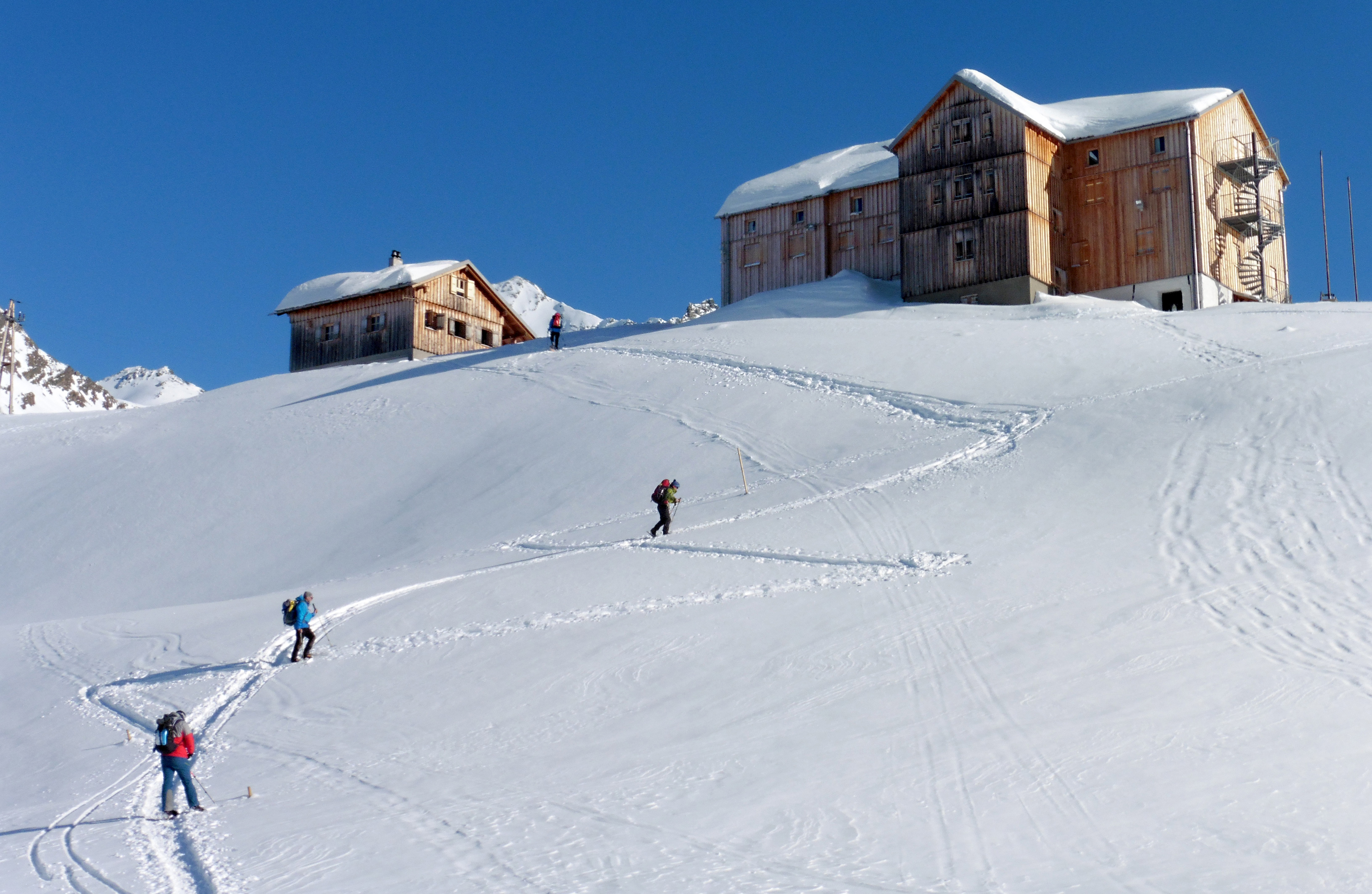 Heilbronner Hütte seen from Northwest in winter.